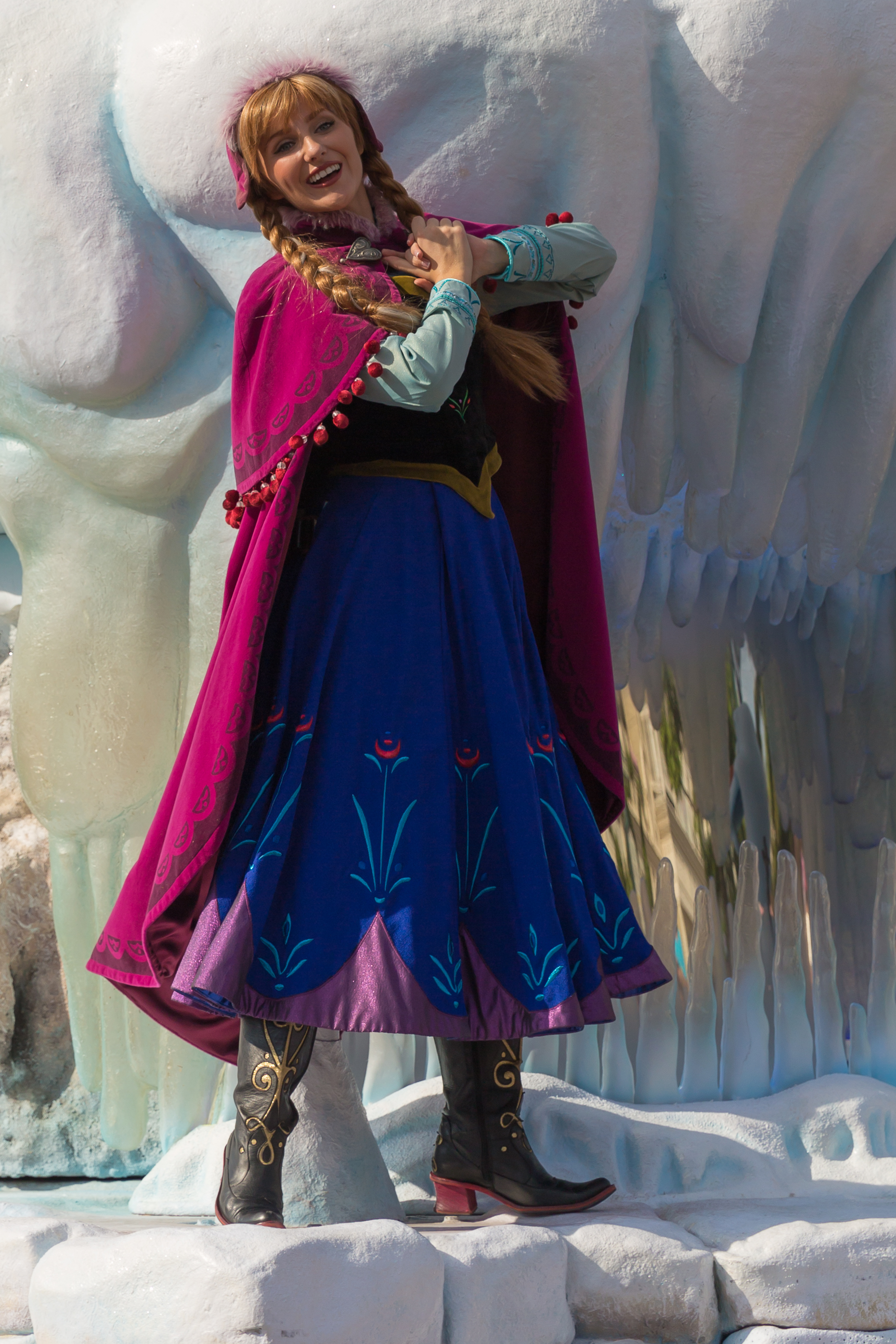 Anna in The Snow Queen at the Disney Magic On Parade in Disneyland Paris.